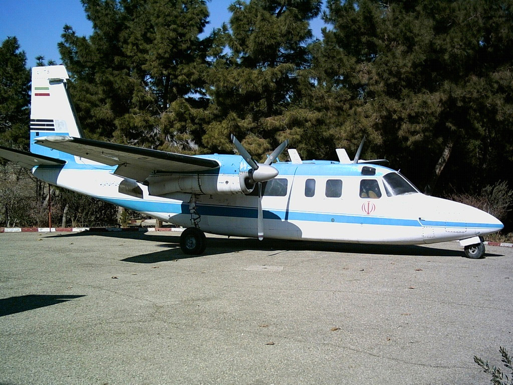 North American Rockwell 690 Turbo (Retired?) of Navy of Iran with very faded registration 5-2501 At the Tehran Aerospace Exhibition Center.